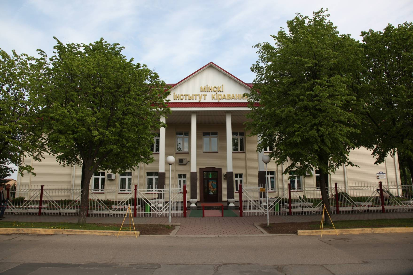 Picture of the Minsk Institute of Management main building